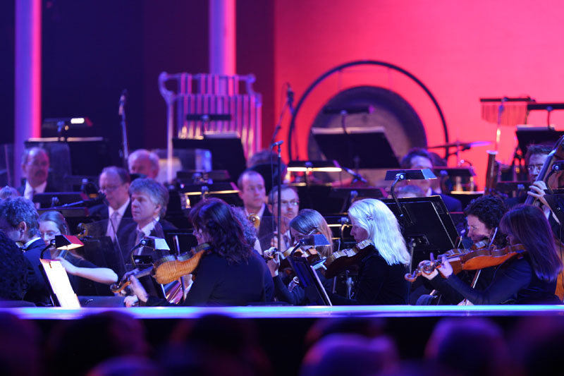 Nobel Peace prize Concert 2008, Oslo Spektrum, The Norwegian Radio Orchestra